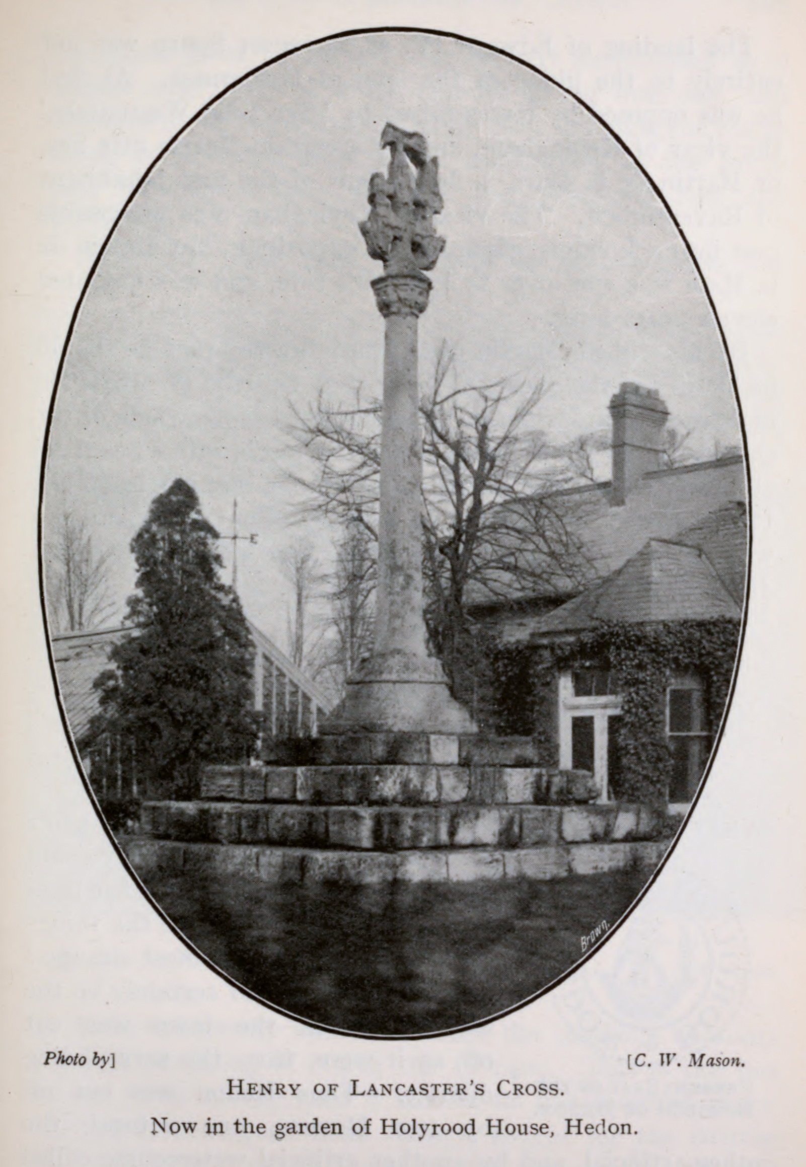 Cross erected commemorating Henry IV landing at Ravenspurn - quote from source: The landing of King Henry IV. at Ravenser Spurn was commemorated by the erection of a cross at the place of landing. Was it a grateful Matthew Danthorpe who erected it ? Very possibly. At any rate it was erected within fourteen years of Henry's landing. Many years afterwards it was removed to Kilnsea ; later still it was removed to Burton Constable, and finally to Hedon, East Riding of Yorkshire, England, where it stands to-day in the garden of Holyrood House.